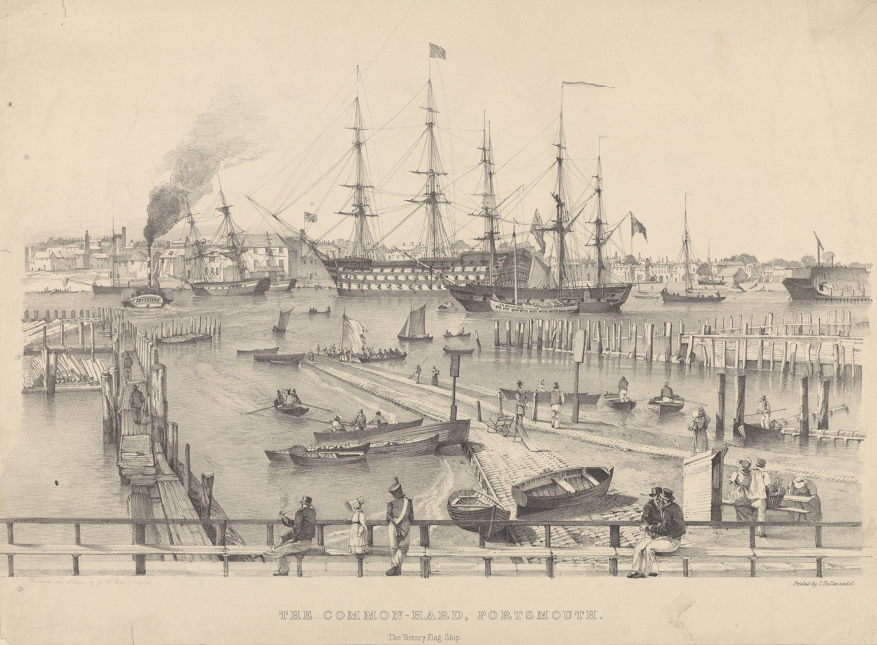 The Common-Hard Portsmouth. The Victory Flag Ship A lithographic proof before the line around the edge and artist's name have been added.